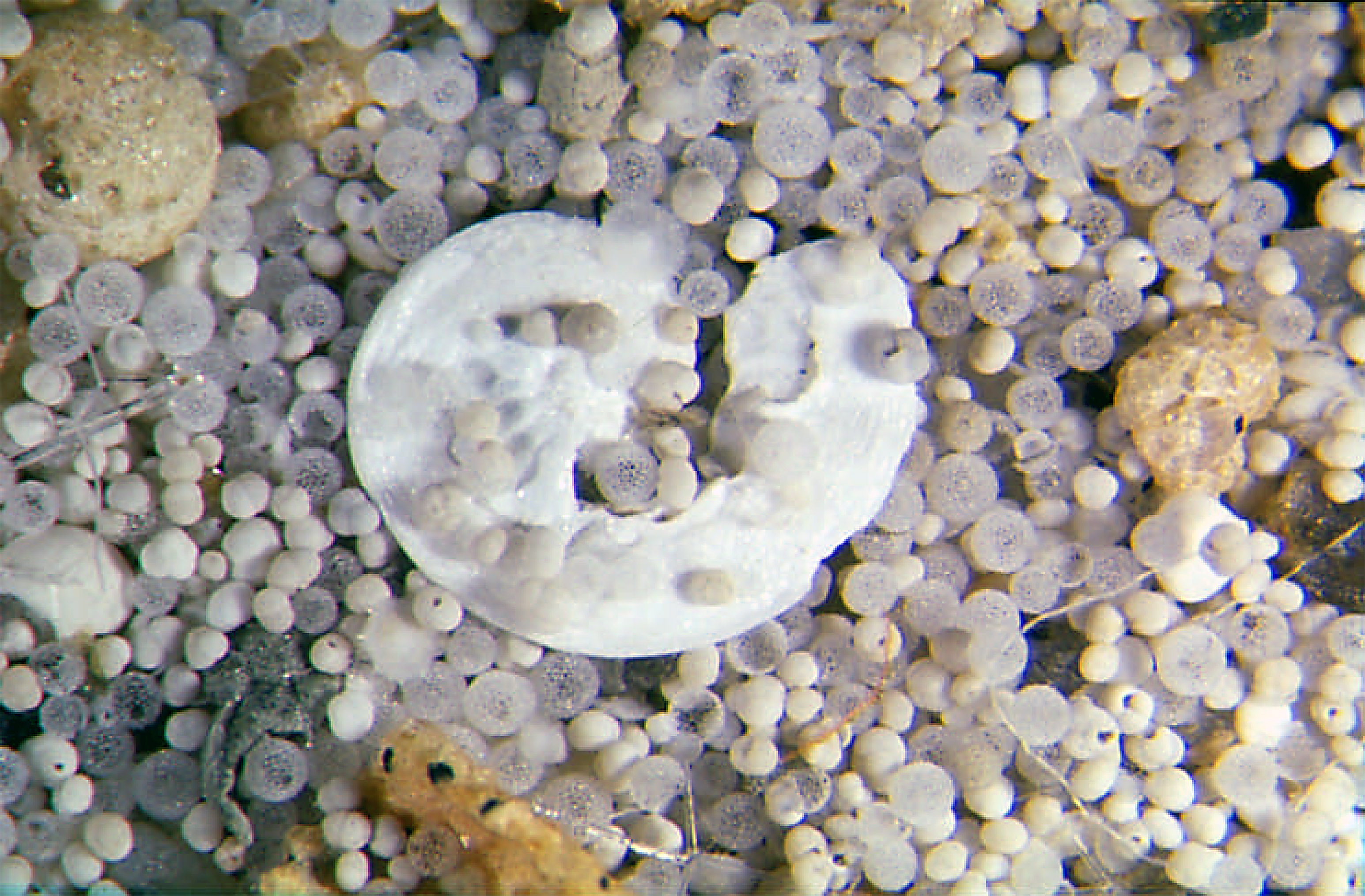 Coarse fraction of a marine sediment with microfossils, Weddell Sea, Antarctica